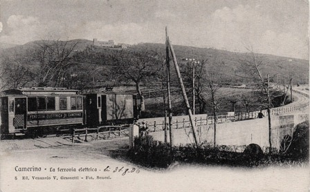 Camerino railway, vintage postcard